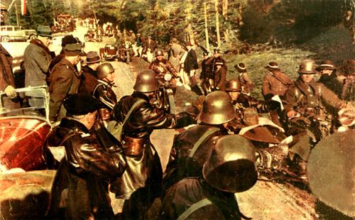 Polish Army, Stanisław Maczek, 10th BK column separated from 10th BK Reconnaissance Squadron, Jaworzyna Spiska, Slovakia. 27.11.1938